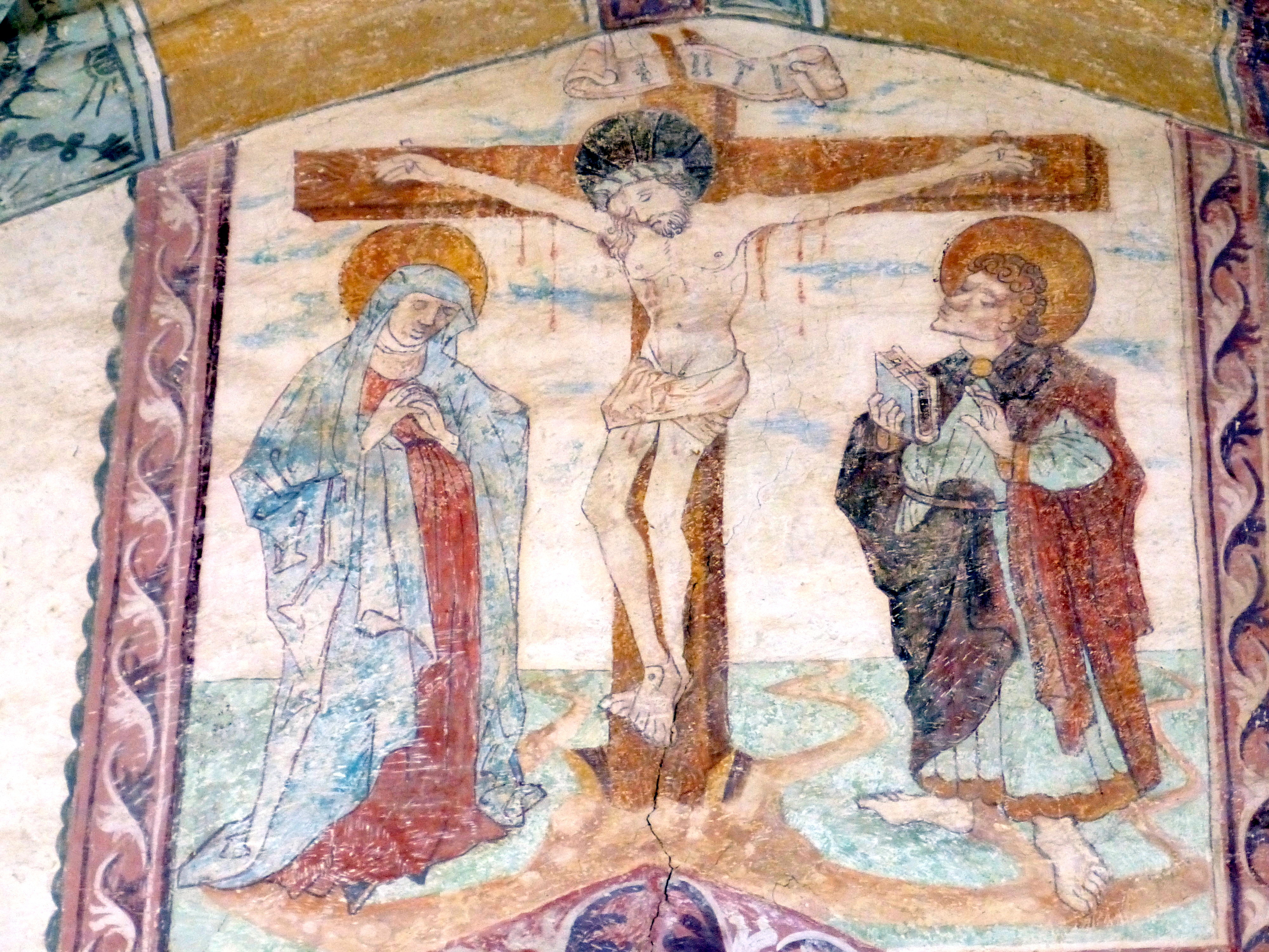 Grongörgen ( Lower Bavaria ). Saint Gregory church ( 1460 ): Fresco ( 15th century ) of Crucifixion group.